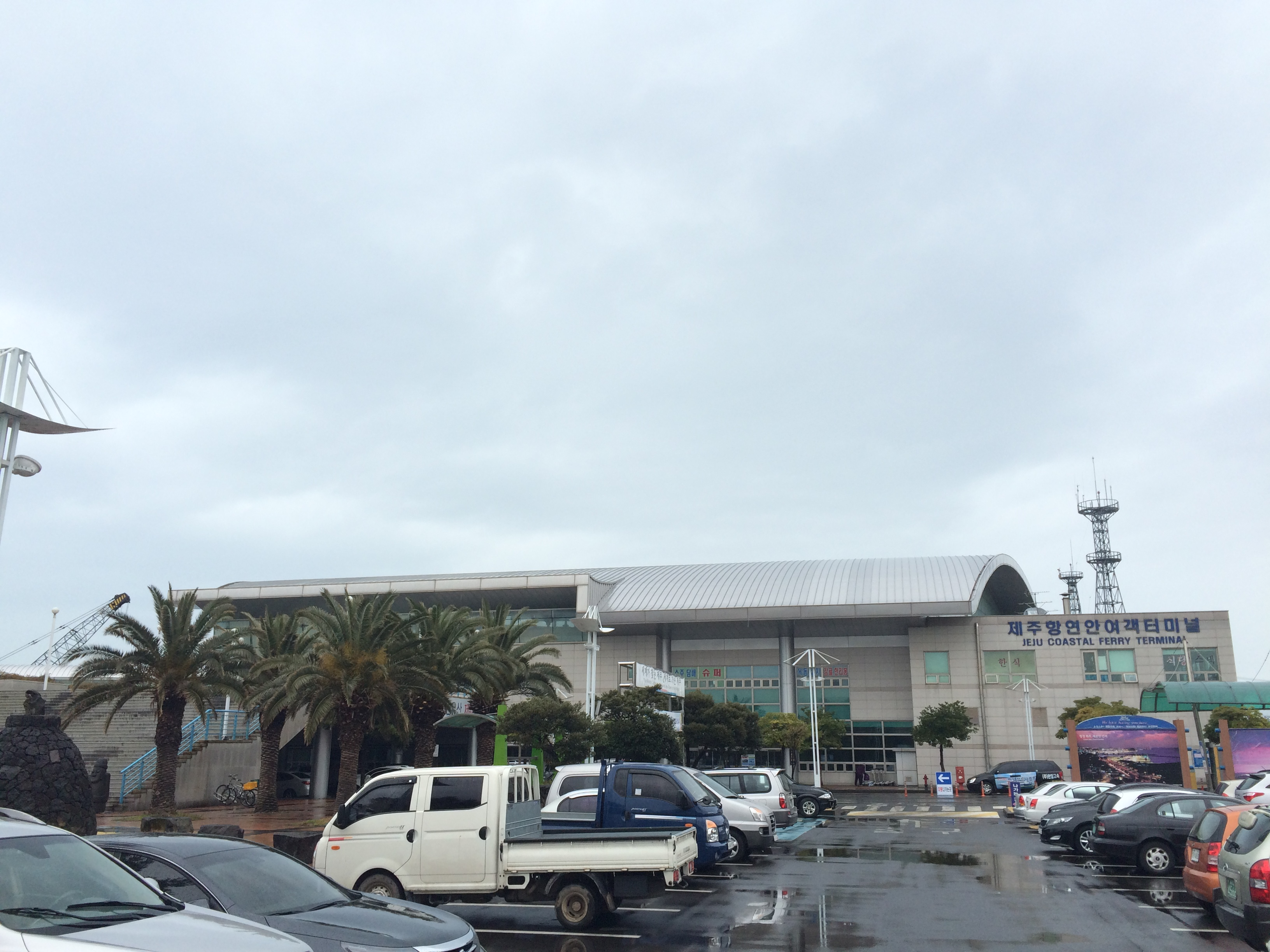 Jeju Costral Ferry Terminal at the port of Jeju, Jeju-do, Republic of Korea